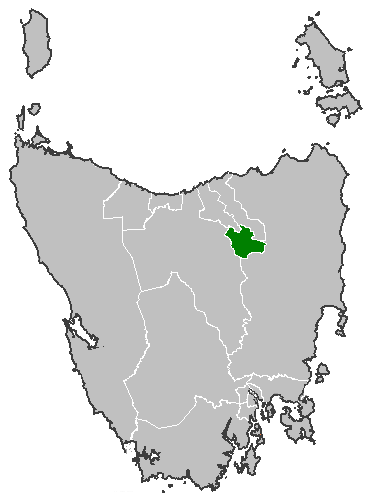 This is a representation of the Apsley electorate. A more detailed map and information about the exact boundary cross overs can be found at Tasmanian Electoral Commission Wesbite - Legislative Council